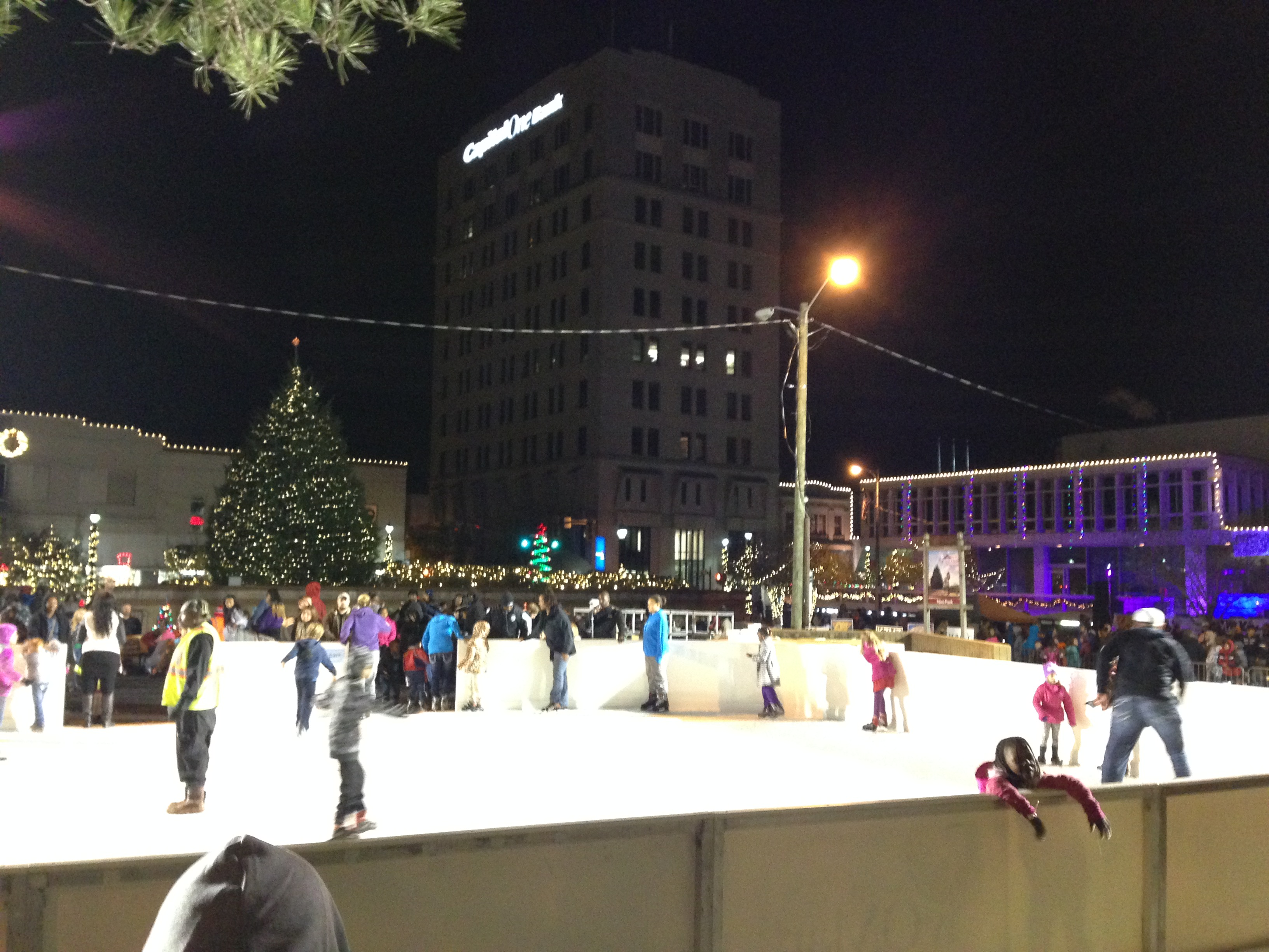 Ice rink at the annual Alex Winter Fête in downtown Alexandria, Louisiana, United States.